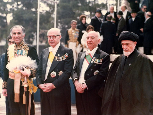 Jamshid Amoozegar vice minister of Iran, Jaafar sharif Emami Chairman of Senate of Iran, Abdollah-e-Riazi University of Tehran Chancellor, Hasan Emami Famous lawyer and Imam of Tehran Friday prayer at Shahre Rey (South of Tehran) Celebrate 100th birthday of Reza Shah